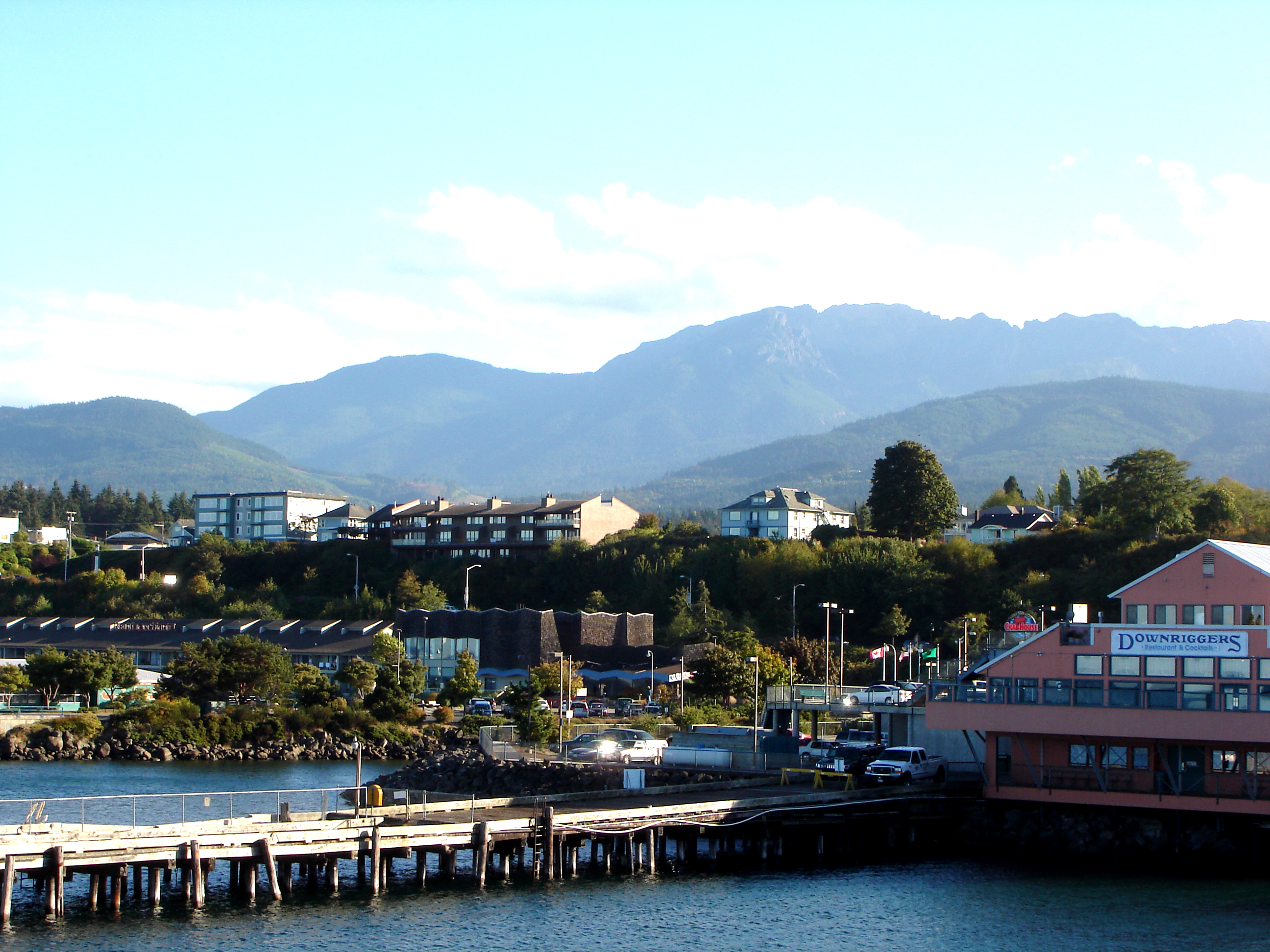 port angeles, washington, usa. as seen from the ferry